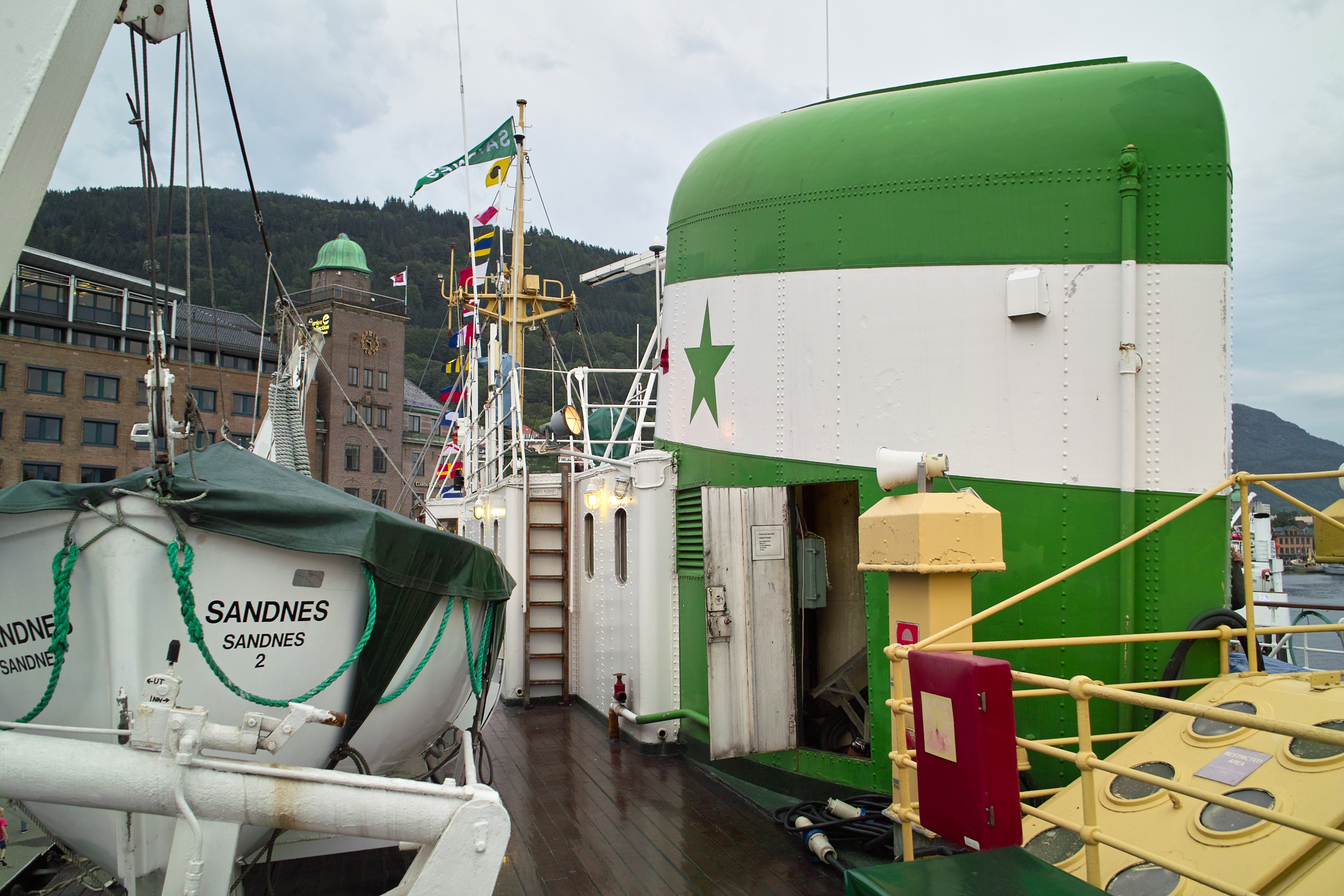 Funnel of MS "Sandnes" (1950) at Fjordsteam 2013 in Bergen.